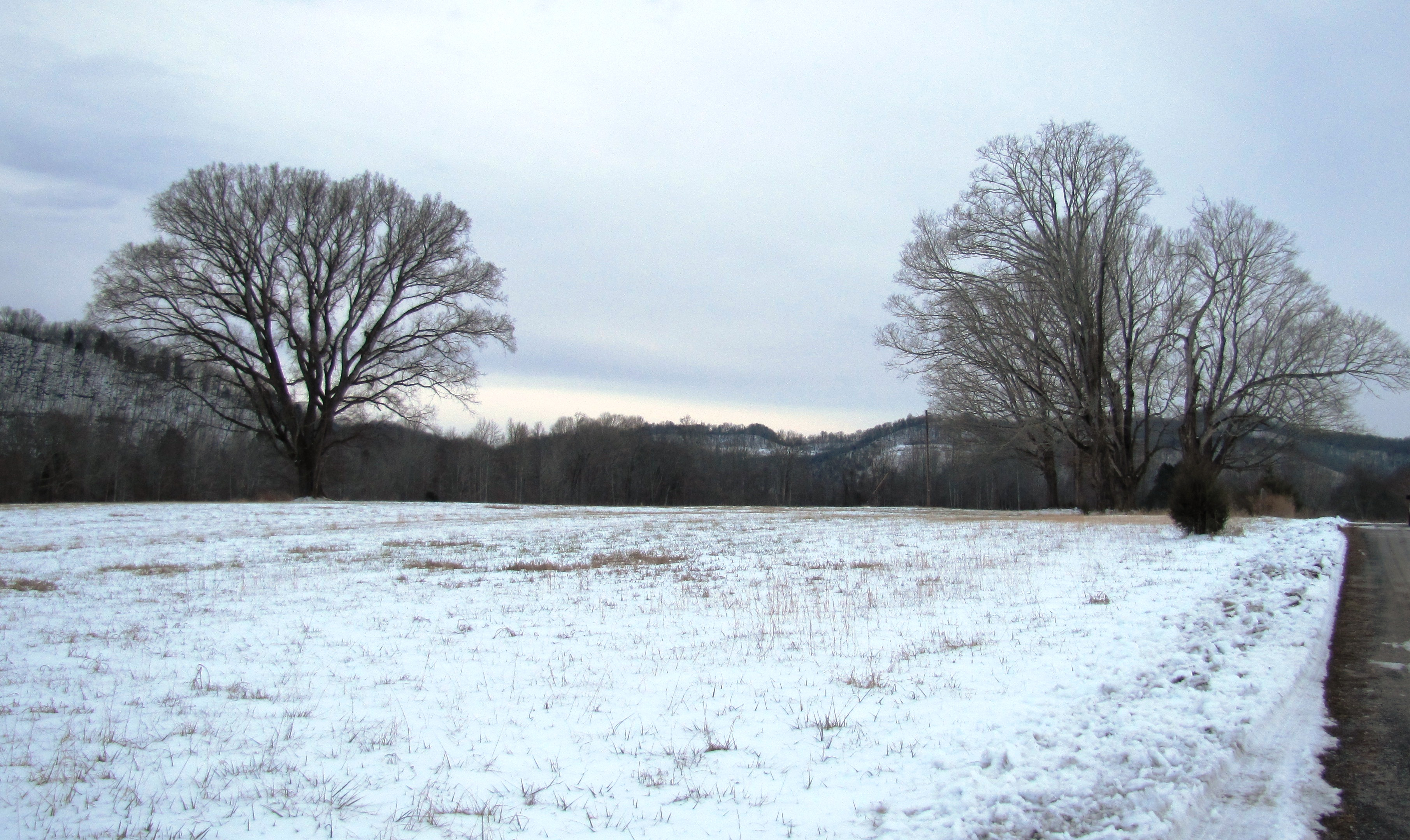 The site of the village of Williamsburg, Tennessee, looking west the tobacco barn along Smith's Bend Road in Jackson County, Tennessee, USA. The old jail was located near the tree on the left. Smith's Bend Road is partially visible at the extreme right. Special thanks to local resident Gene Smith for pointing me to the location of this site and adjacent sites.